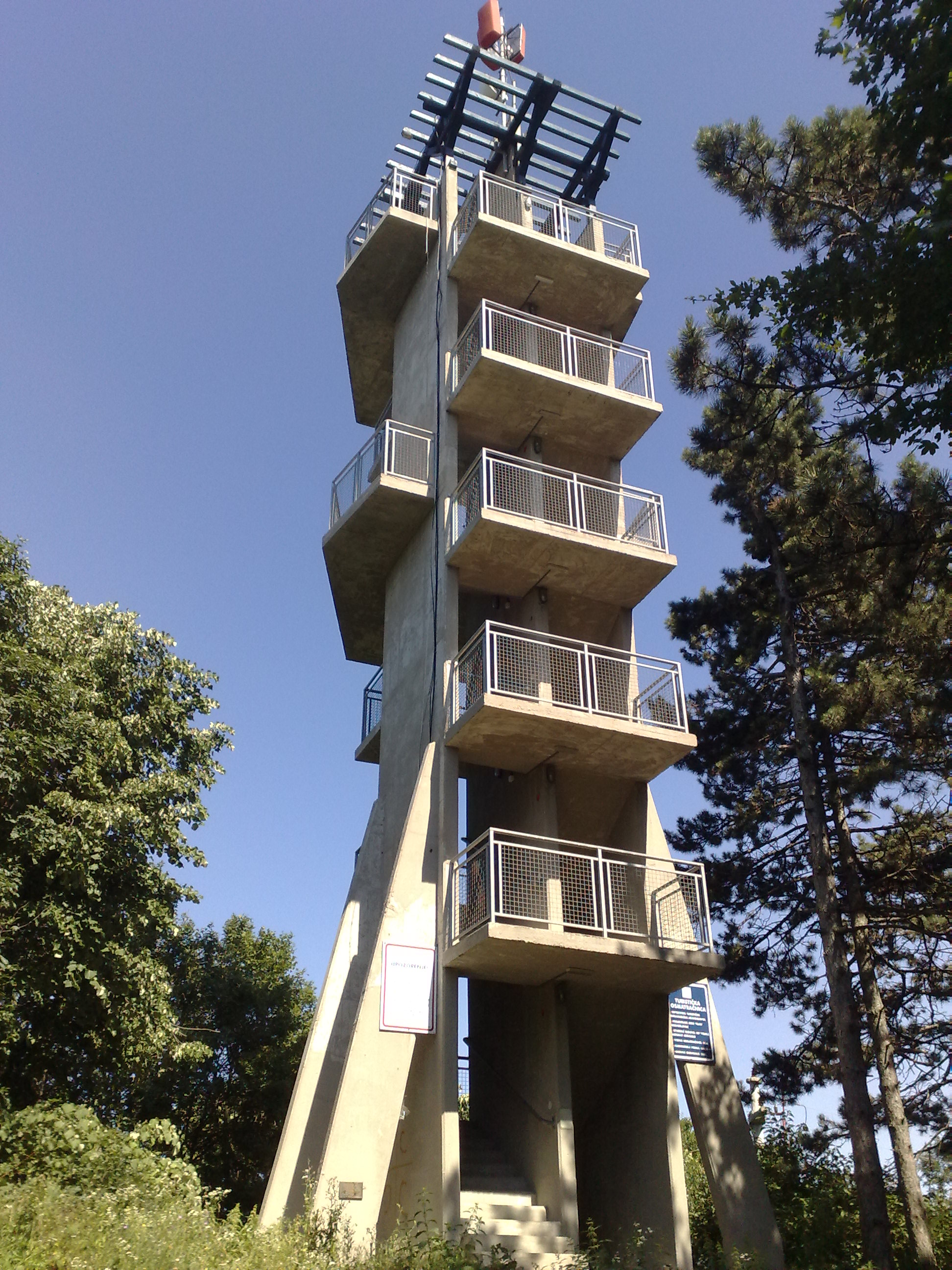 Watchtower on mountain Bukulja, near Aranđelovac in Serbia